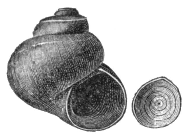 Drawing of the apertural view of the shell of Valvata utahensis and its operculum.